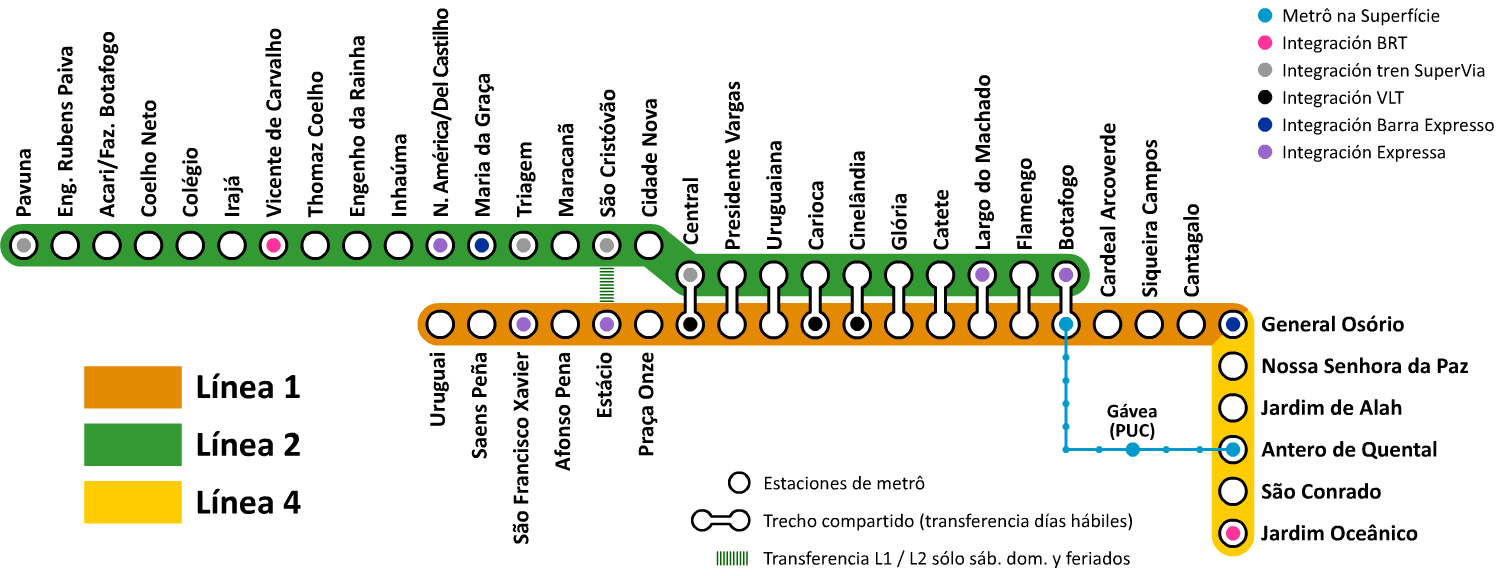 Diagram of the Rio de Janeiro subway (Brazil) since mid-2016